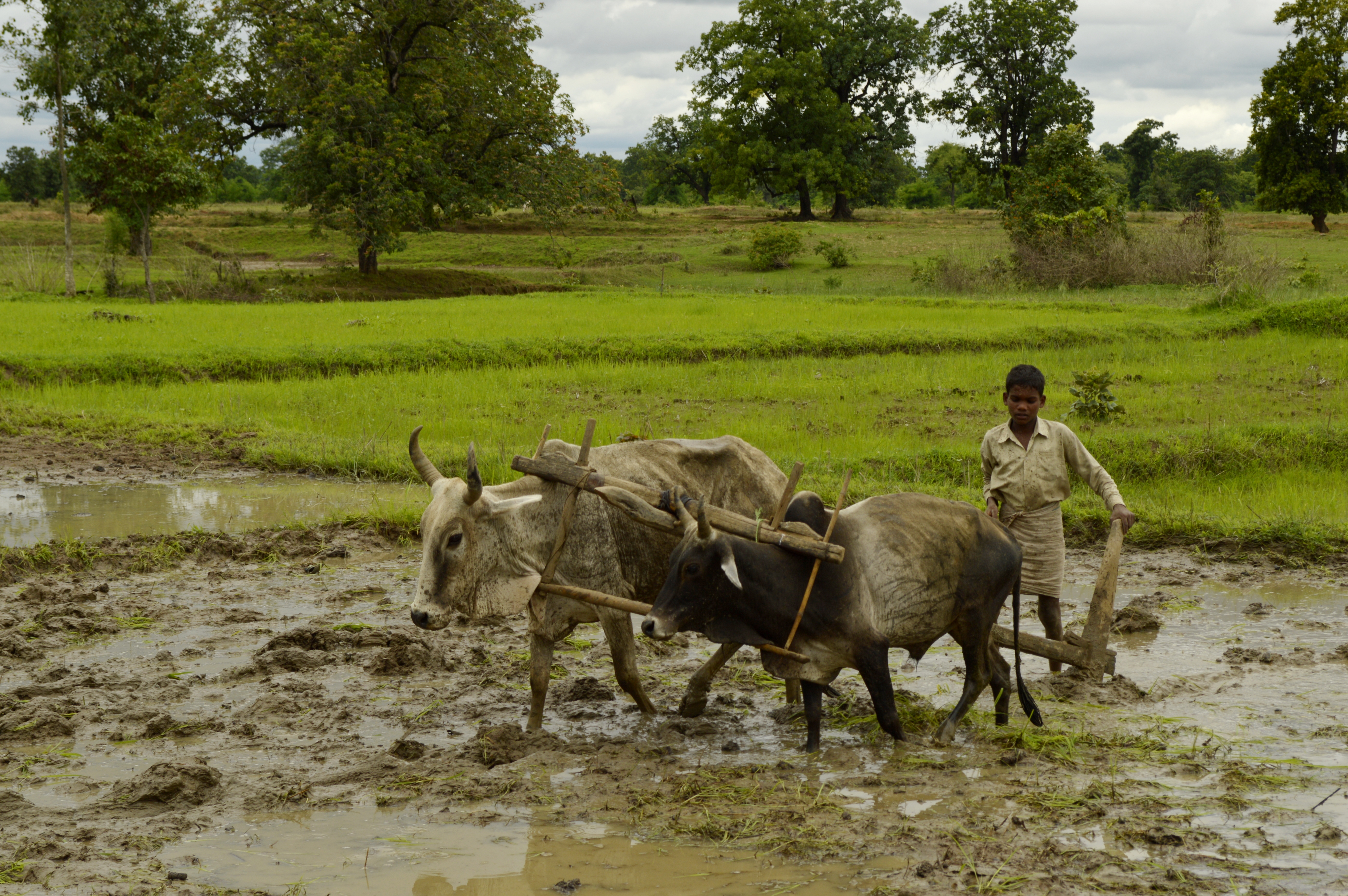 Ploughing of a paddy field with oxen, Umaria district, Madhya Pradesh, India.